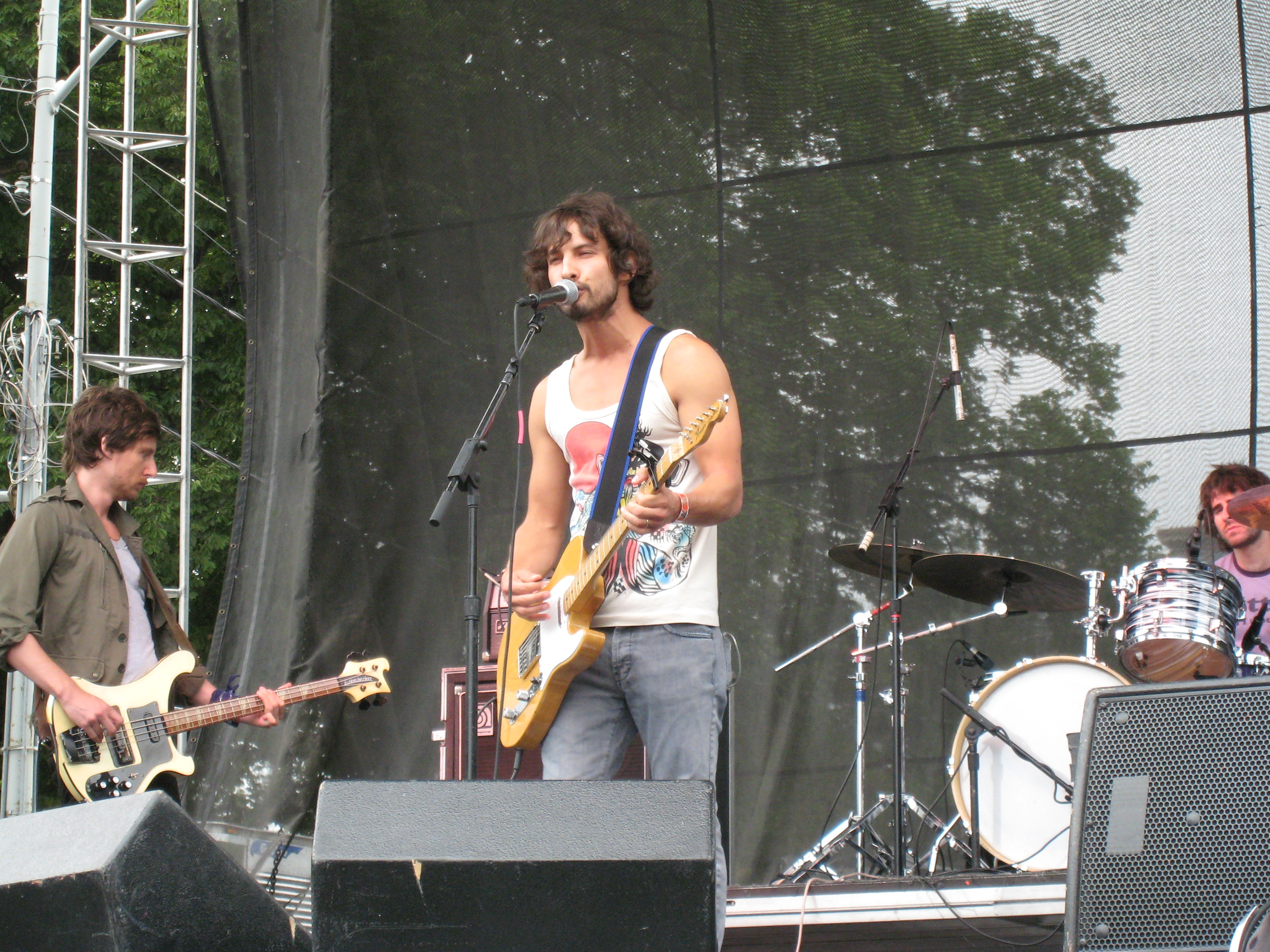 Sam Roberts Band playing Lollapalooza in 2007